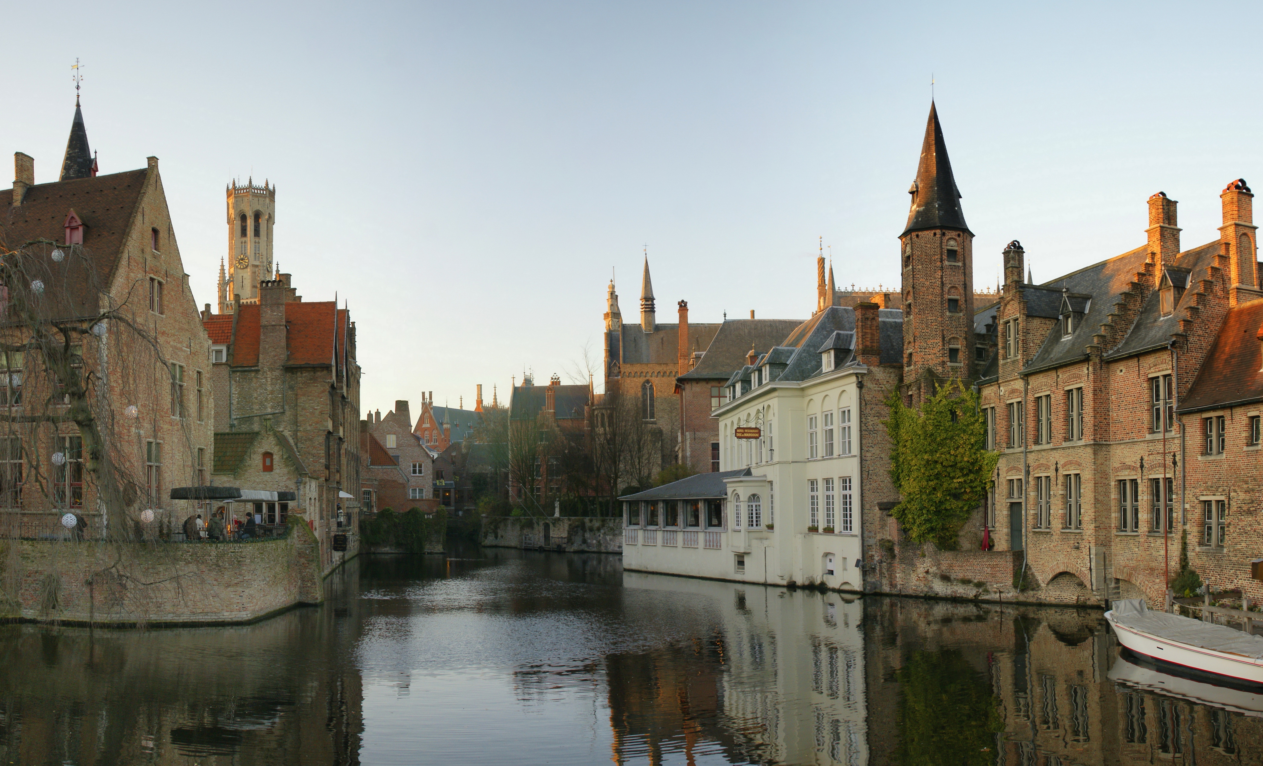 View from the Rozenhoedkaai in Brugge, Belgium